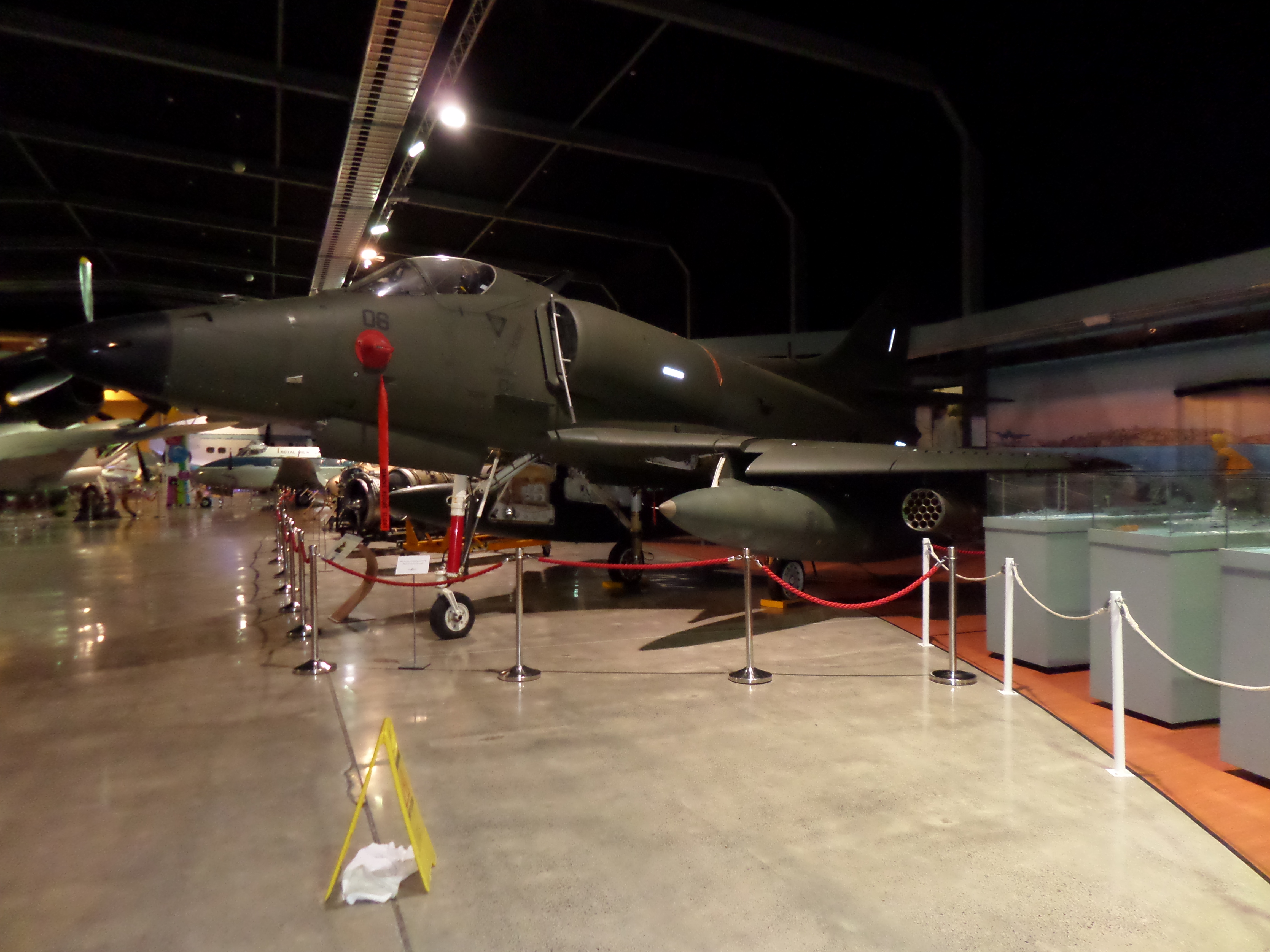 A-4K Skyhawk on static display at MOTAT in Auckland